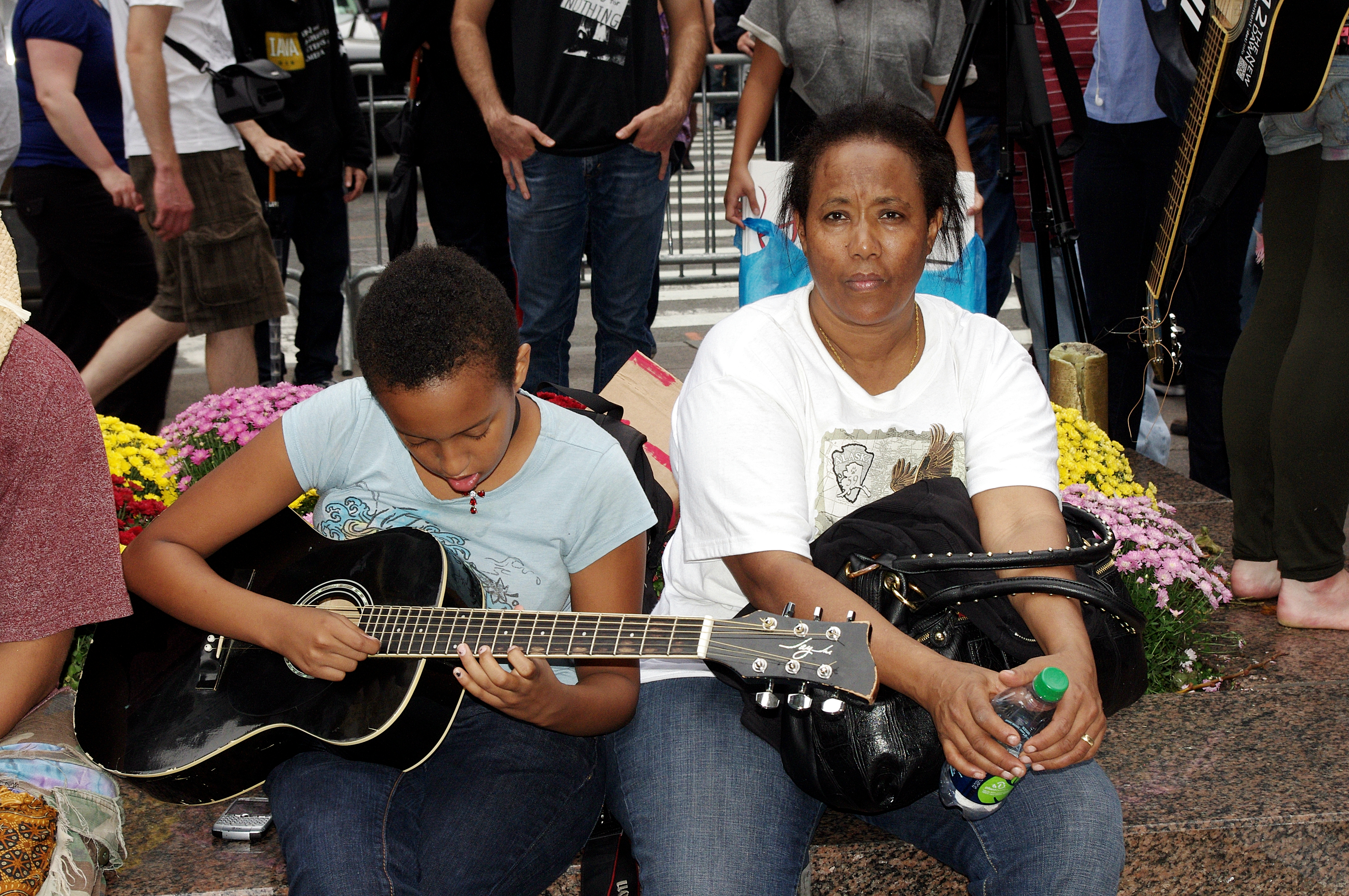 The protest event Occupy Wall Street in Zuccotti Park in New York, on Day 8, September 24. Wall Street has been barricaded off to the public for over a week.